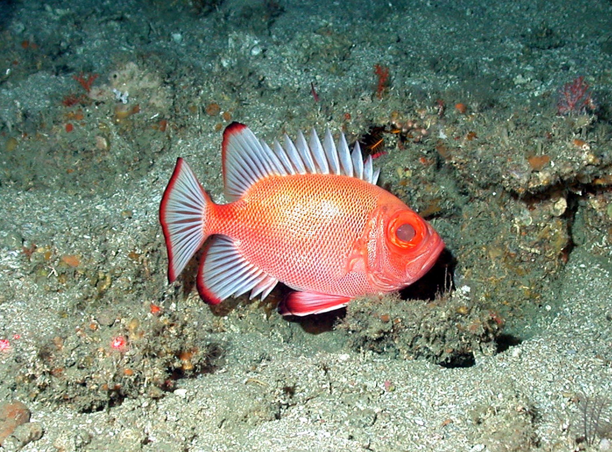 A short bigeye (Pristygenys alta). Atlantic Ocean, Southeast U.S. shelf/slope area.